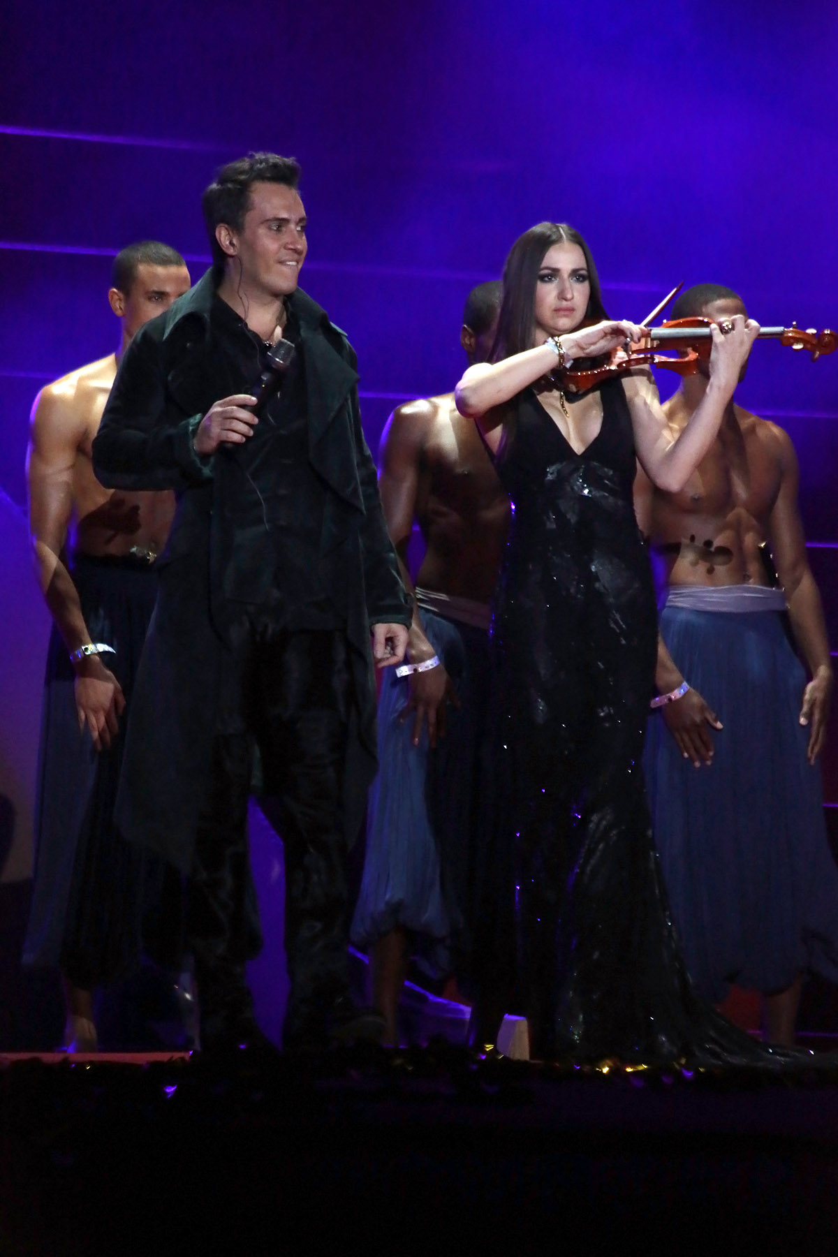 Rusanda Panfili and Erwin Schrott, opening show of Life Ball 2013 at the city hall of Vienna, Vienna, Austria.